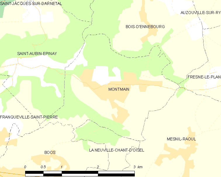 Map of French municipality Montmain